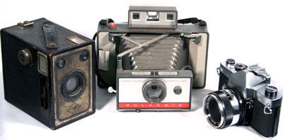 Variety of Cameras By ExNihilo Portfolio